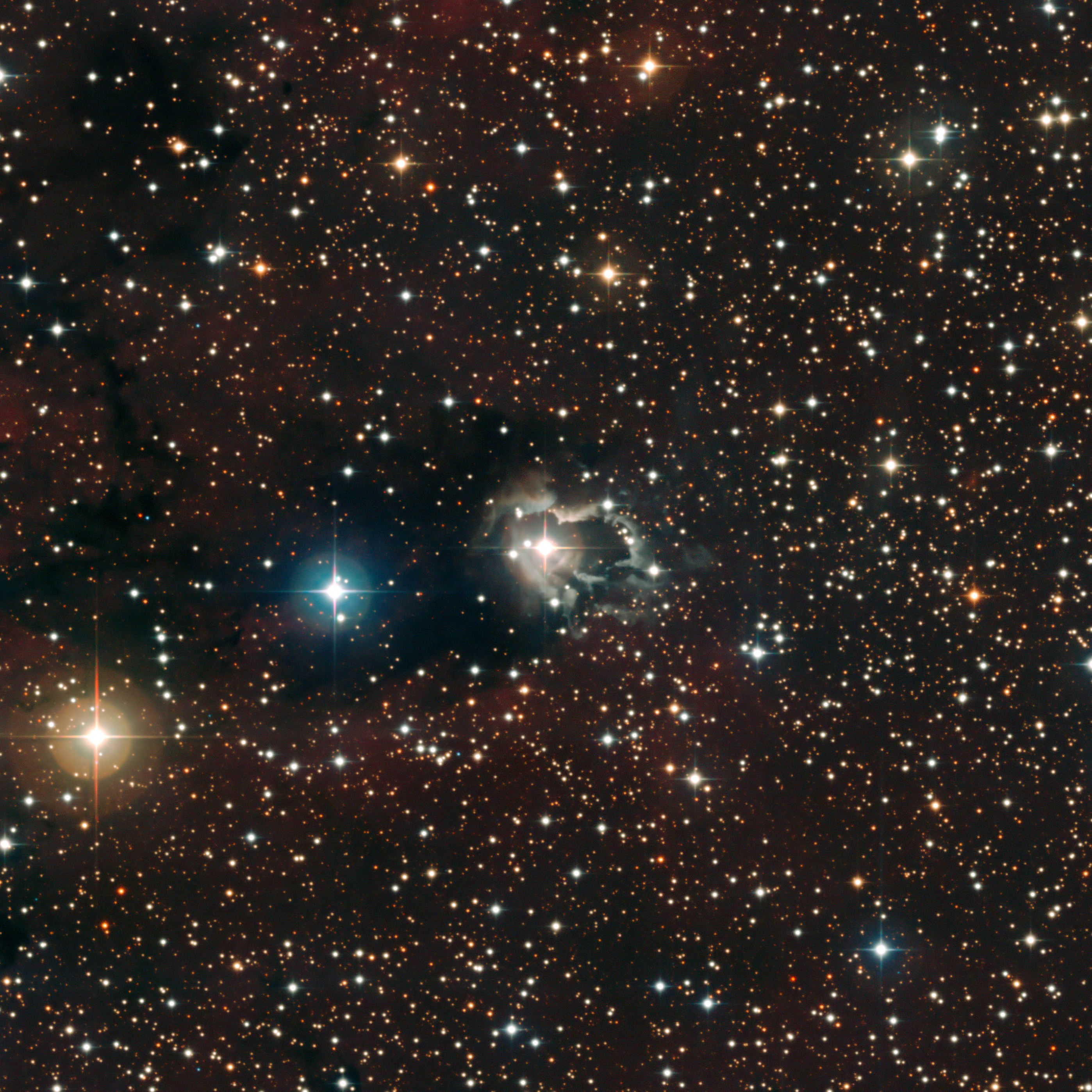 This image, centred on the B[e] star HD 87643, beautifully shows the extended nebula of gas and dust that reflects the light from the star. The central star's wind appears to have shaped the nebula, leaving bright, ragged tendrils of gas and dust. A careful investigation of these features seems to indicate that there are regular ejections of matter from the star every 15 to 50 years. The image, taken with the Wide Field Imager on the MPG/ESO 2.2-metre telescope at La Silla, is based on data obtained through different filters: B, V and R.